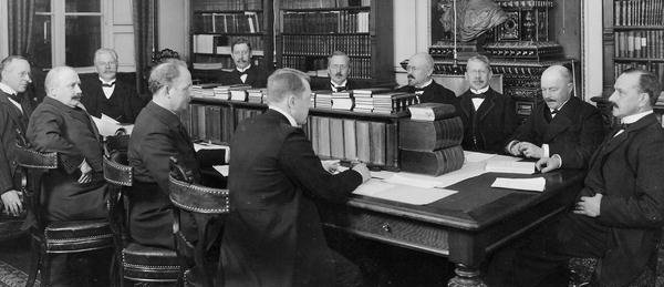 Ministry of Sweden, 1911. Prime Minister Karl Staaff's second term.